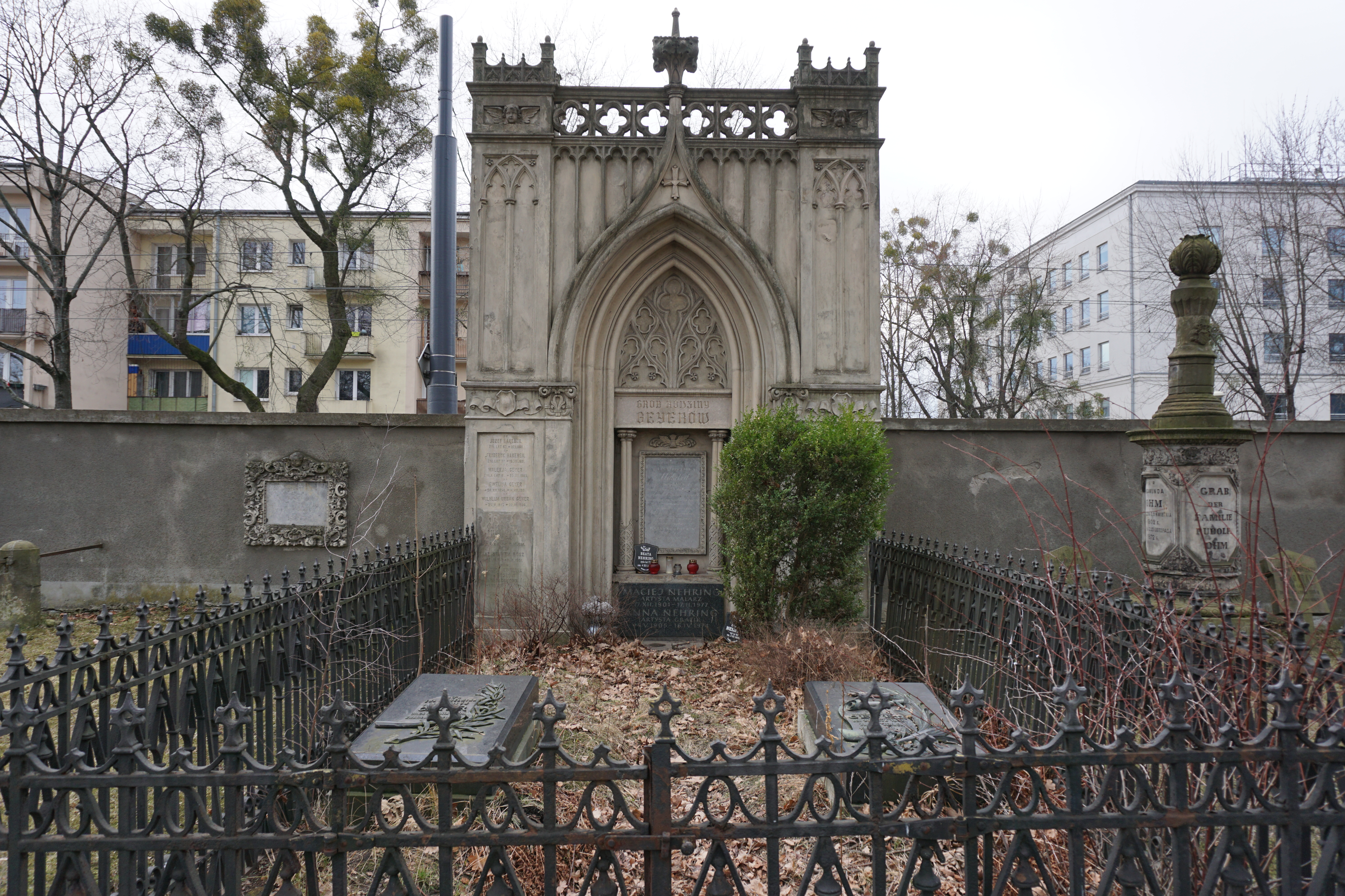 The grave of Maciej Nehring at the Evangelical-Augsburg cemetery in Warsaw (avenue 2, grave 4)